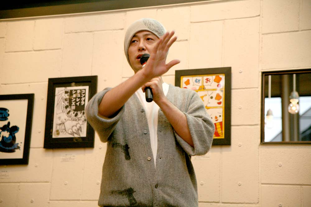 This photograph is the one taken a picture of at the reception party of "CAFE ZENON".